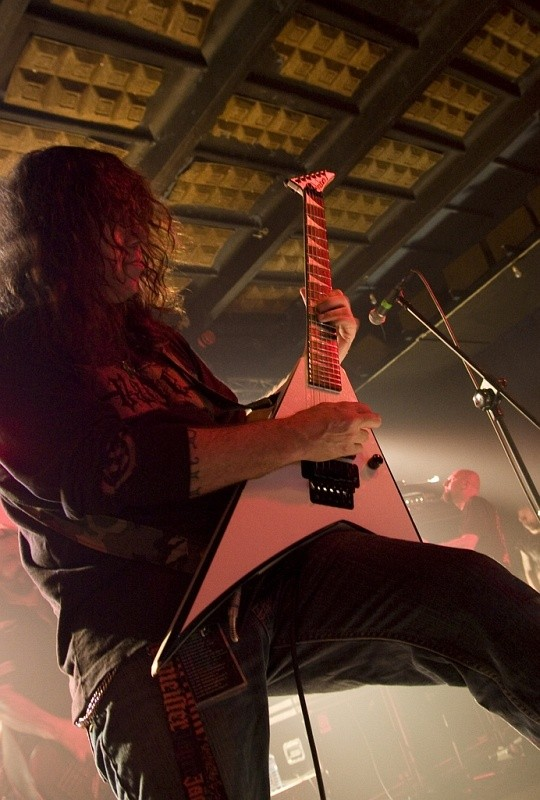 Winterfest 2009, Deicide, Warszawa, Progresja, 22.01.2009